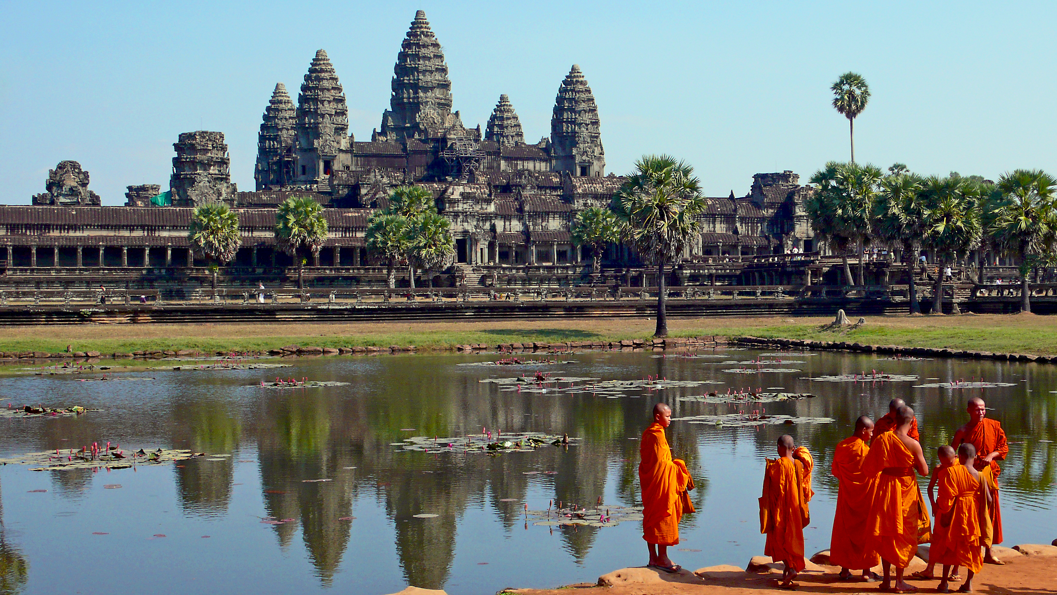 Buddhist monks in front of the reflection pool at Angkor Wat, Cambodia. View On Black